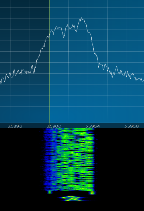 Spectrum of digital radio transmission with initial RSID